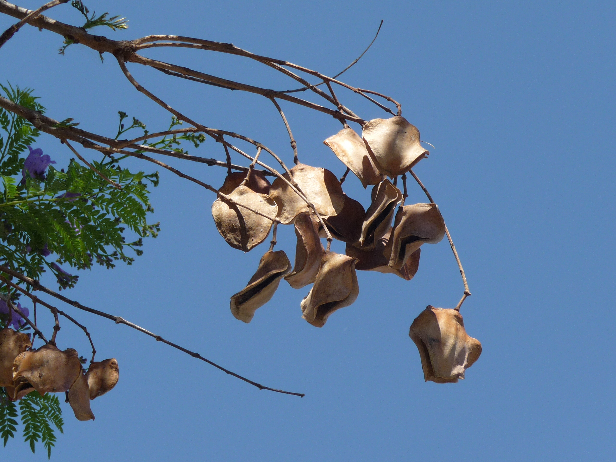 Jacaranda seedpods in a tree in Salta, Argentina.